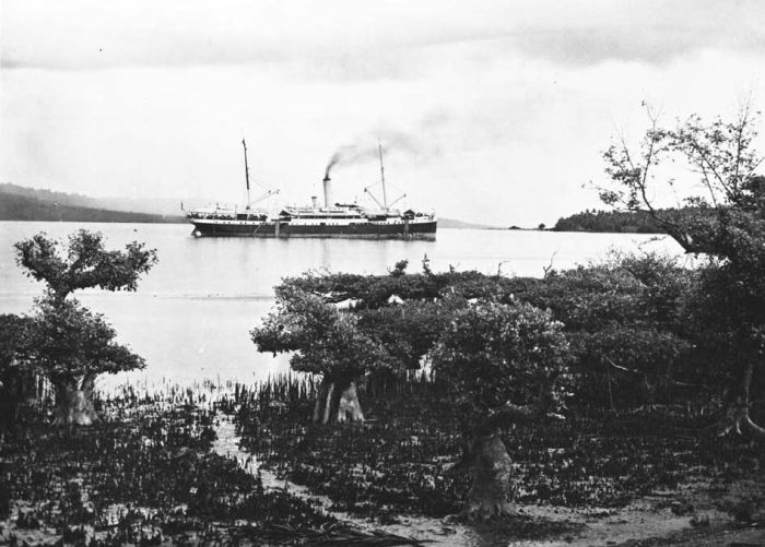 KPM steamer Reynst at Palu Bay